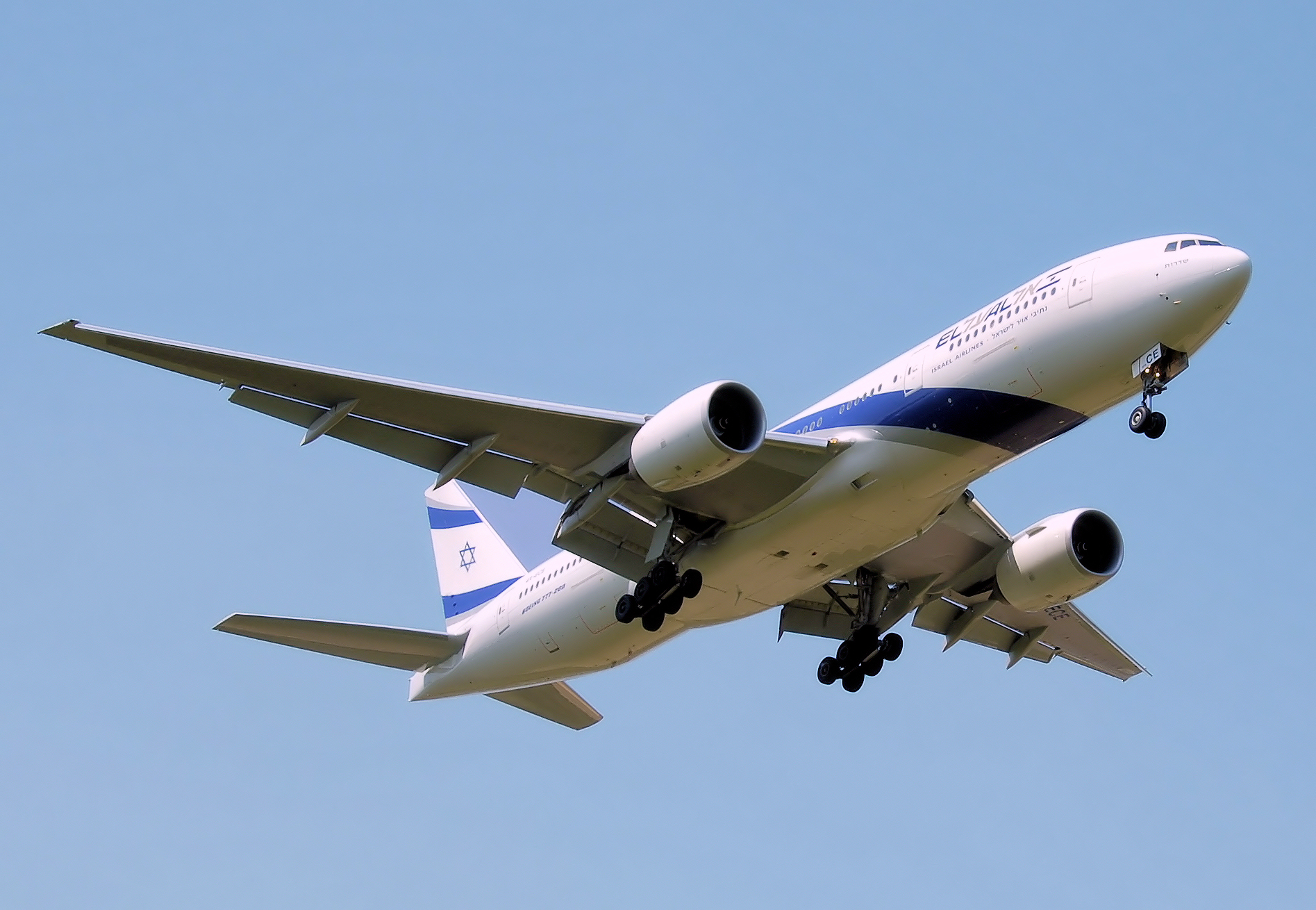 El Al Boeing 777-200ER (4X-ECE) lands at London Heathrow Airport.